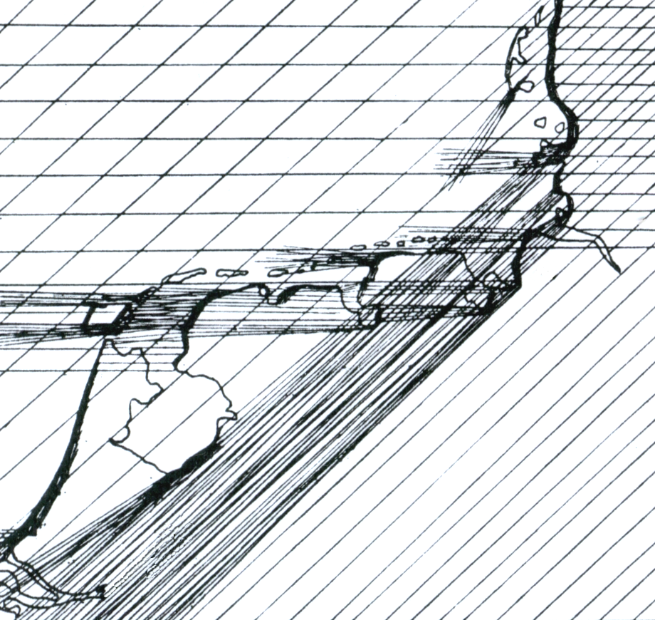 Map showing bird migration over the Netherlands; after a drawing of 1934